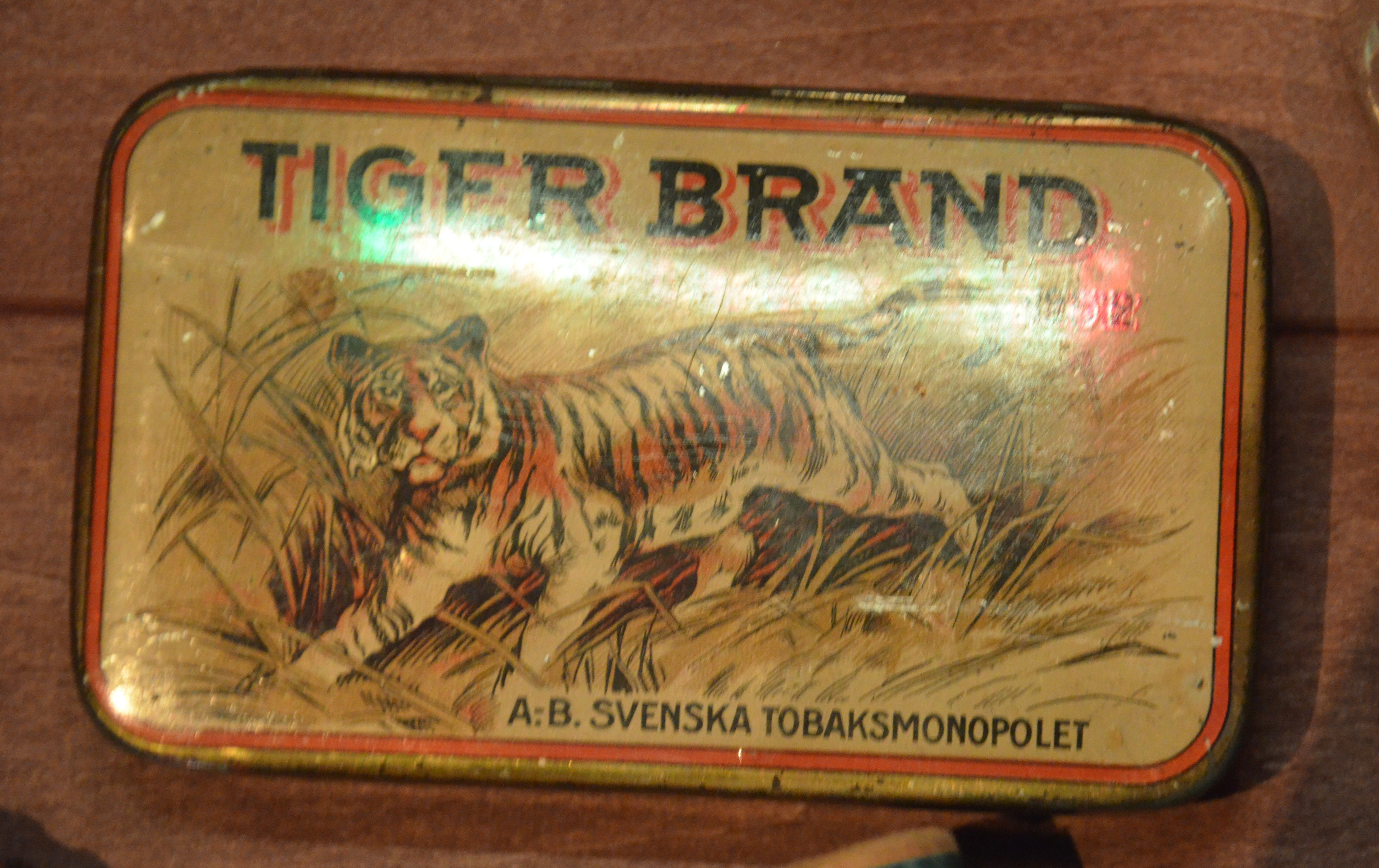 Pipe tobacco Tiger Brand by Svenska Tobaksmonopolet, Bohus läns museum